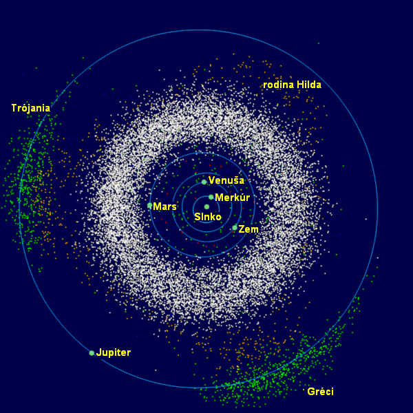 Description=The inner Solar System, from the Sun to Jupiter. Also includes the Main Asteroid Belt (the white donut-shaped cloud), the Hildas (the orange "triangle" just inside the orbit of Jupiter) and the Jovian Trojans (green). The group that leads Jupiter are called the "Greeks" and the trailing group are called the "Trojans" (Murray and Dermott, Solar System Dynamics, pg. 107).